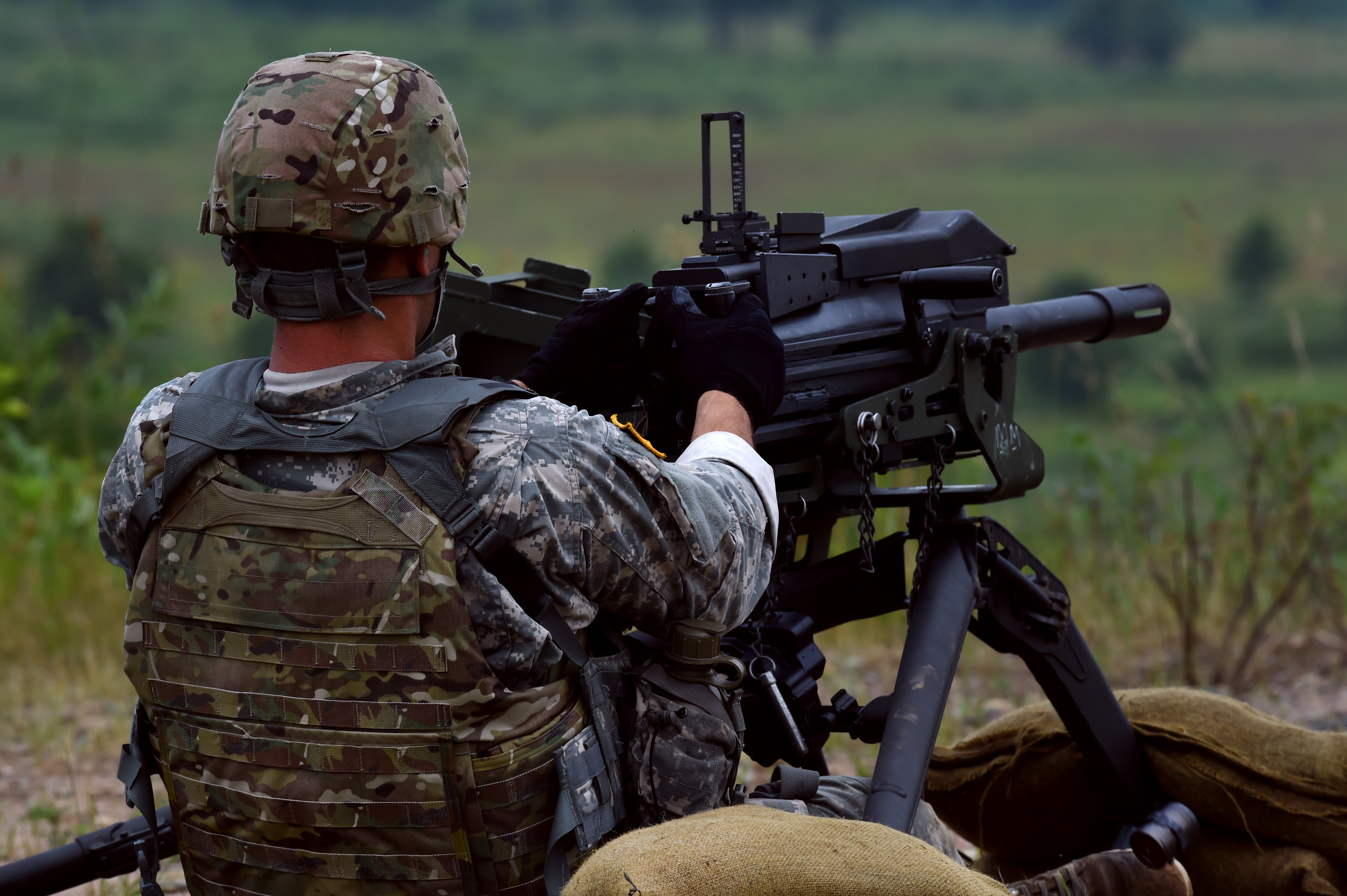 Spc. Brock Mudge, an infantryman with the Washington Army National Guard's C Company, 3rd Battalion, 161st Infantry Regiment, engages targets with a Mark 19 automatic grenade launcher while competing in the 2017 Army National Guard Best Warrior Competition at Camp Ripley, Minn., Tuesday, July 18, 2017. The competition is a mentally and physically challenging three-day event that tests Soldiers on a variety of tactical and technical skills to determine the Army Guard's Soldier and noncommissioned of the year. The winners move on to compete in the Department of the Army Best Warrior Competition, battling it out with Soldiers from throughout the Army to be named the Army's Soldier and NCO of the year. (U.S. Army photo by Sgt. 1st Class Jon Soucy)